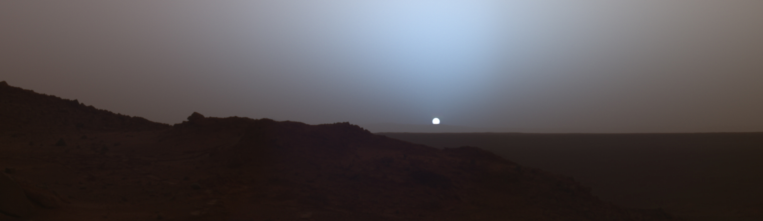 Martian sunset: Spirit at Gusev crater.